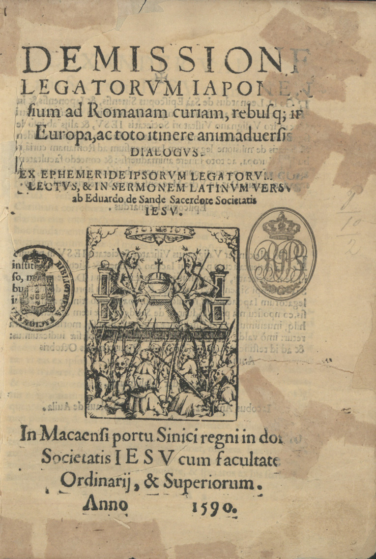 Bookcover of report first Japanese legation to Europe